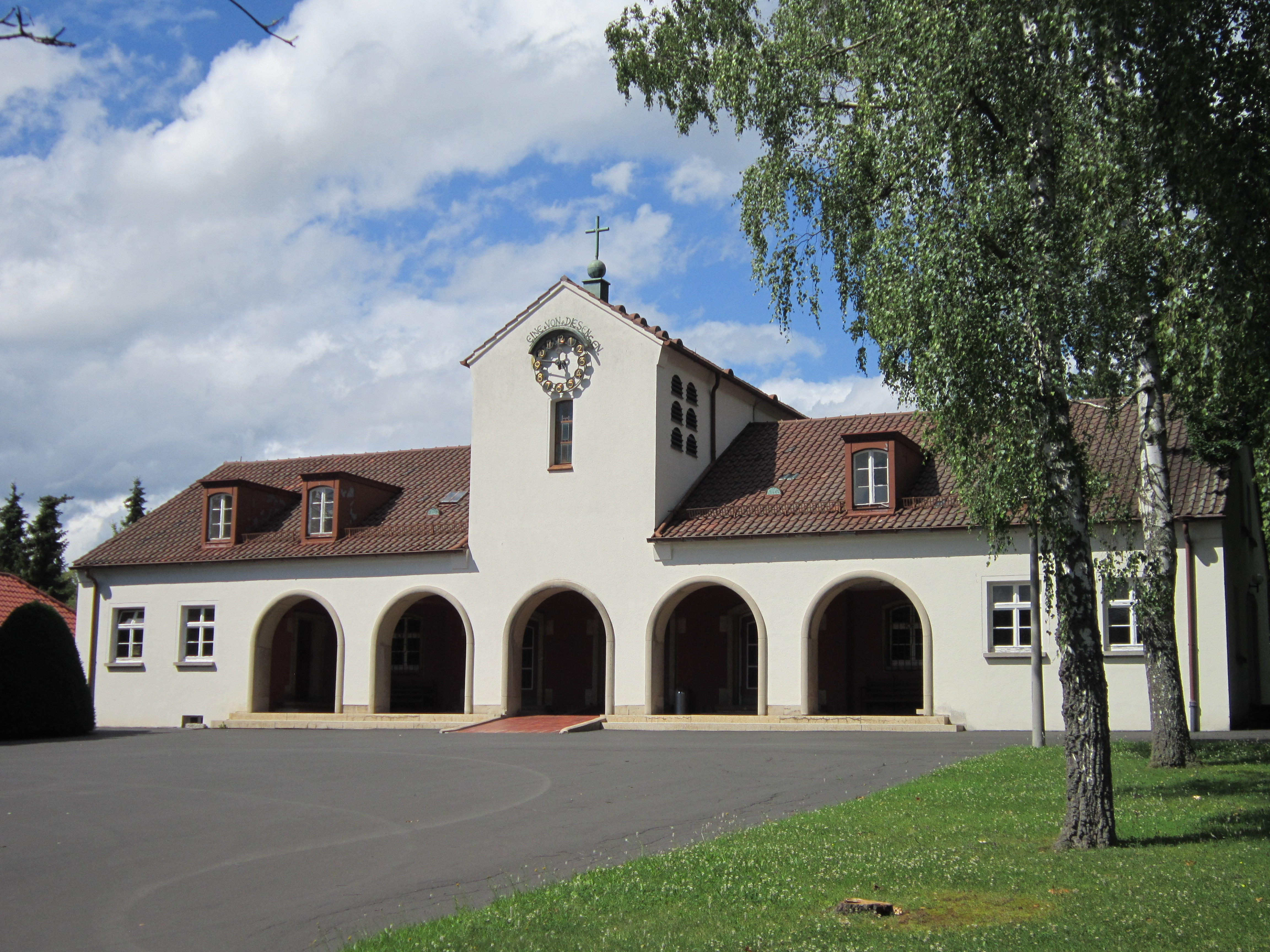 Funeral home at the "Parkfriedhof in the Bavarian spa town of Bad Kissingen, Germany